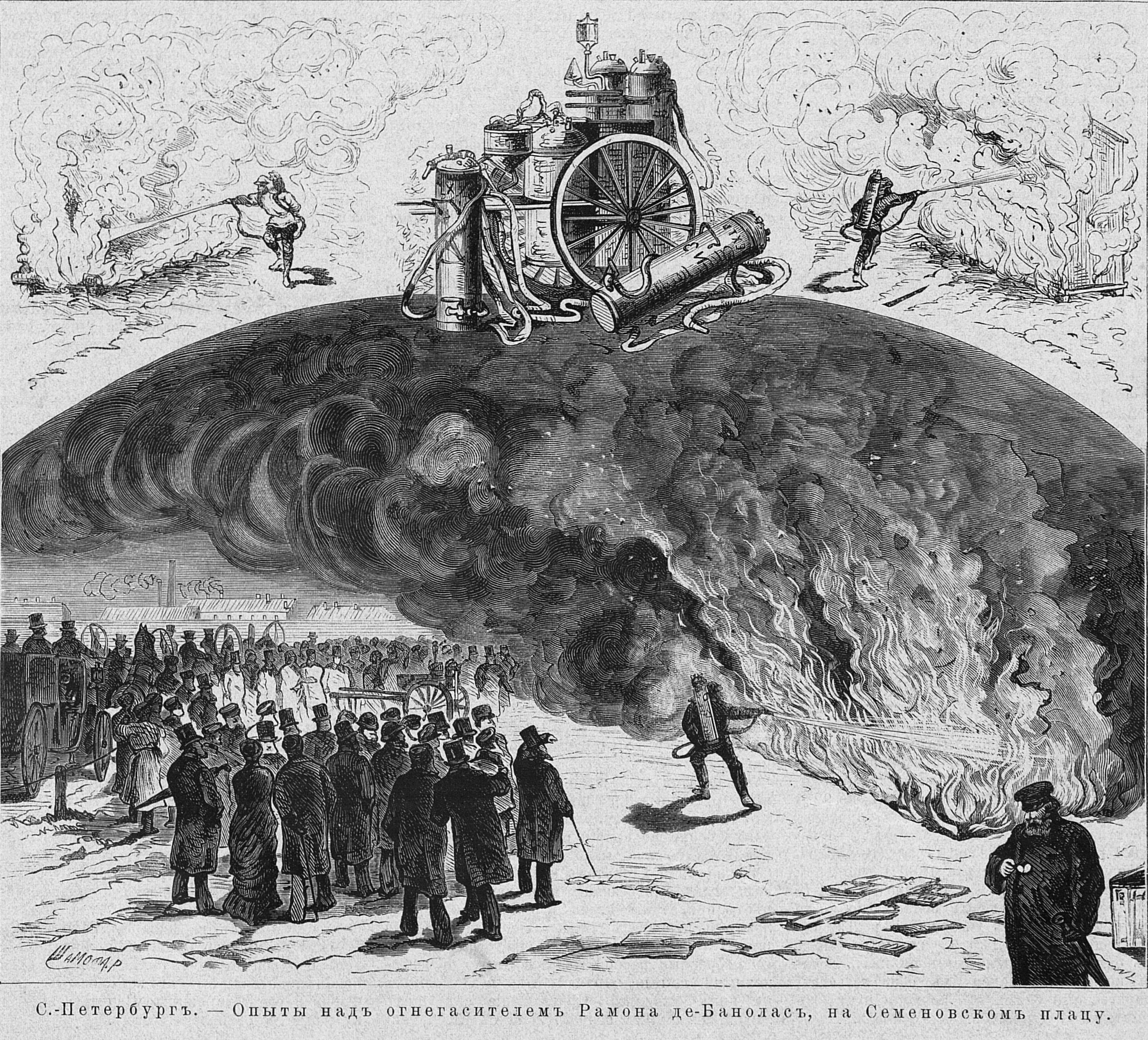 The test of the fire extinguisher Ramon de Banales (Banolas), St. Petersburg, 1881